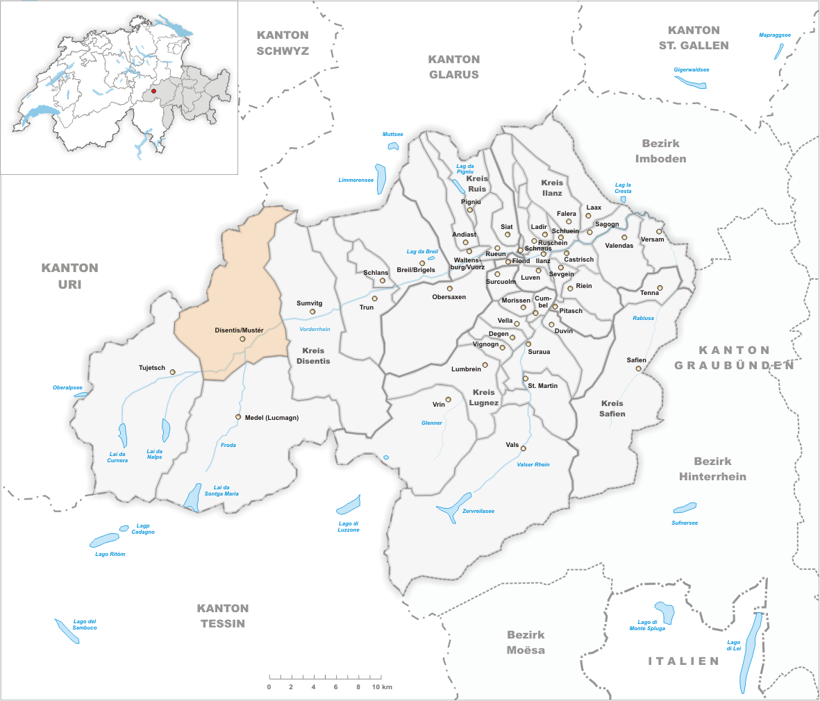 Municipality Disentis/Mustér